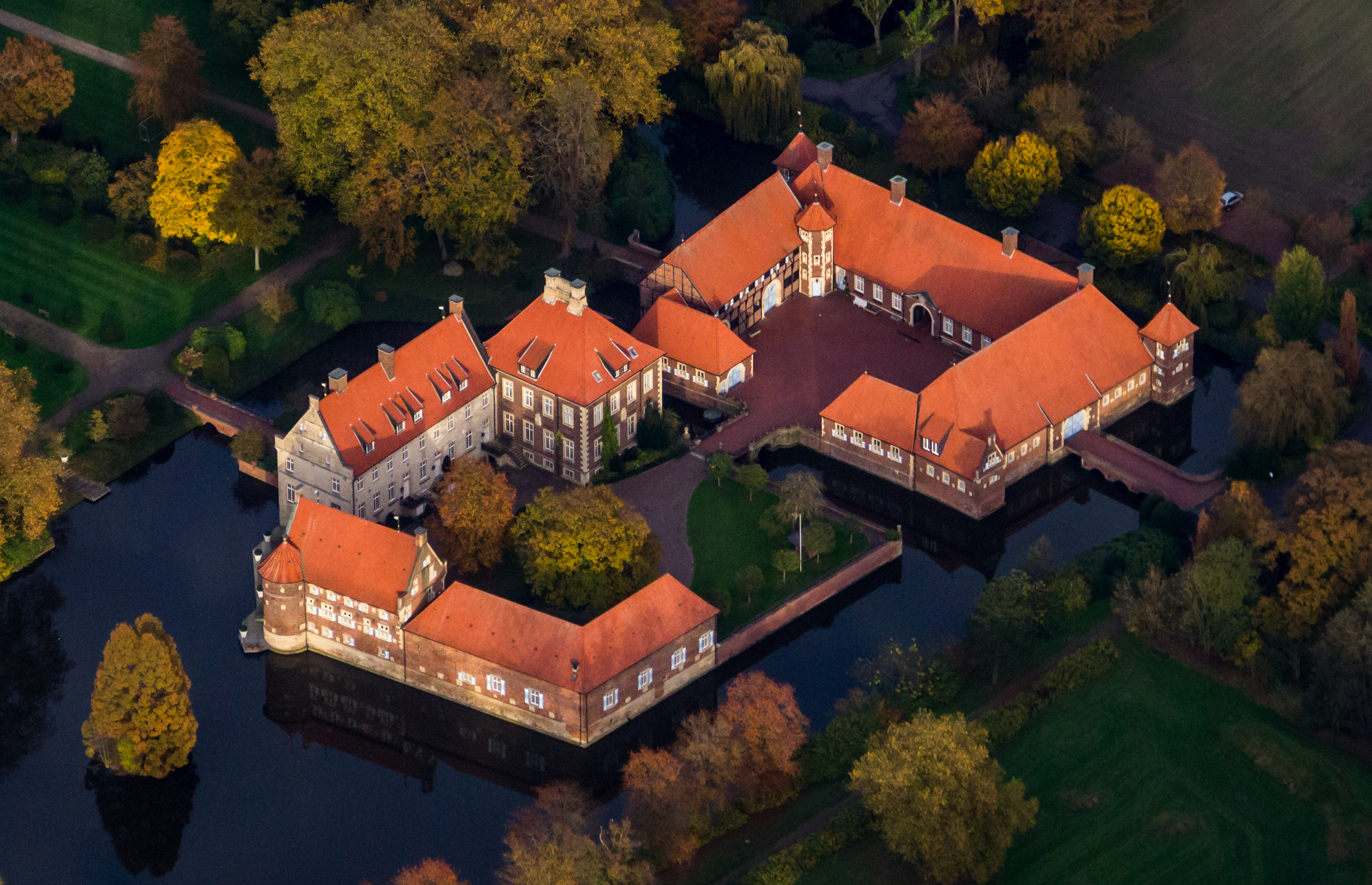 Borg Manor, Rinkerode, Drensteinfurt, North Rhine-Westphalia, Germany